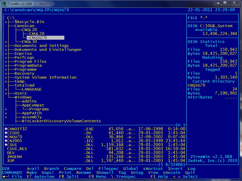 ZTreeWin Version 2.1